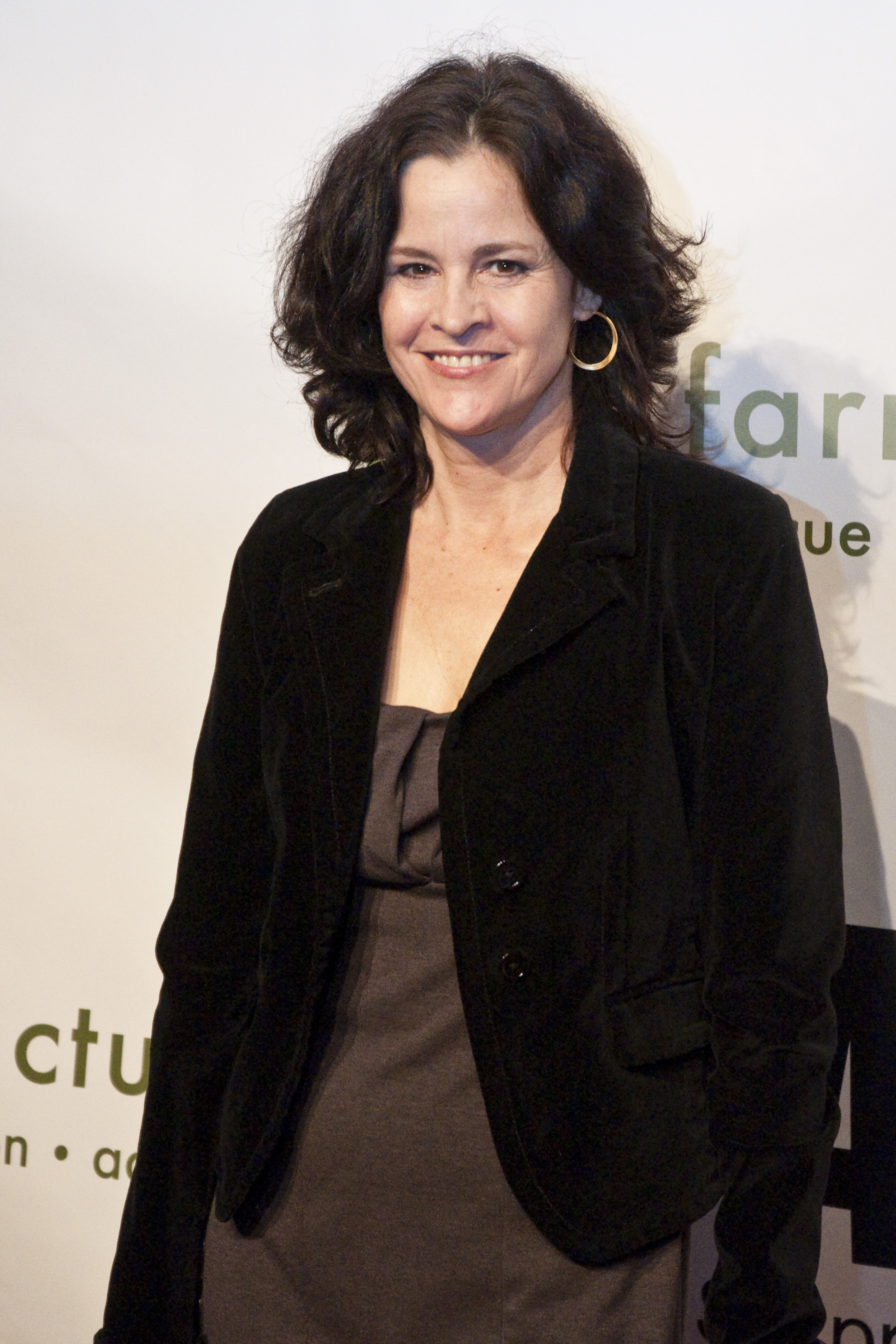 Ally Sheedy at the Farm Sanctuary 25th Anniversary Gala in New York City